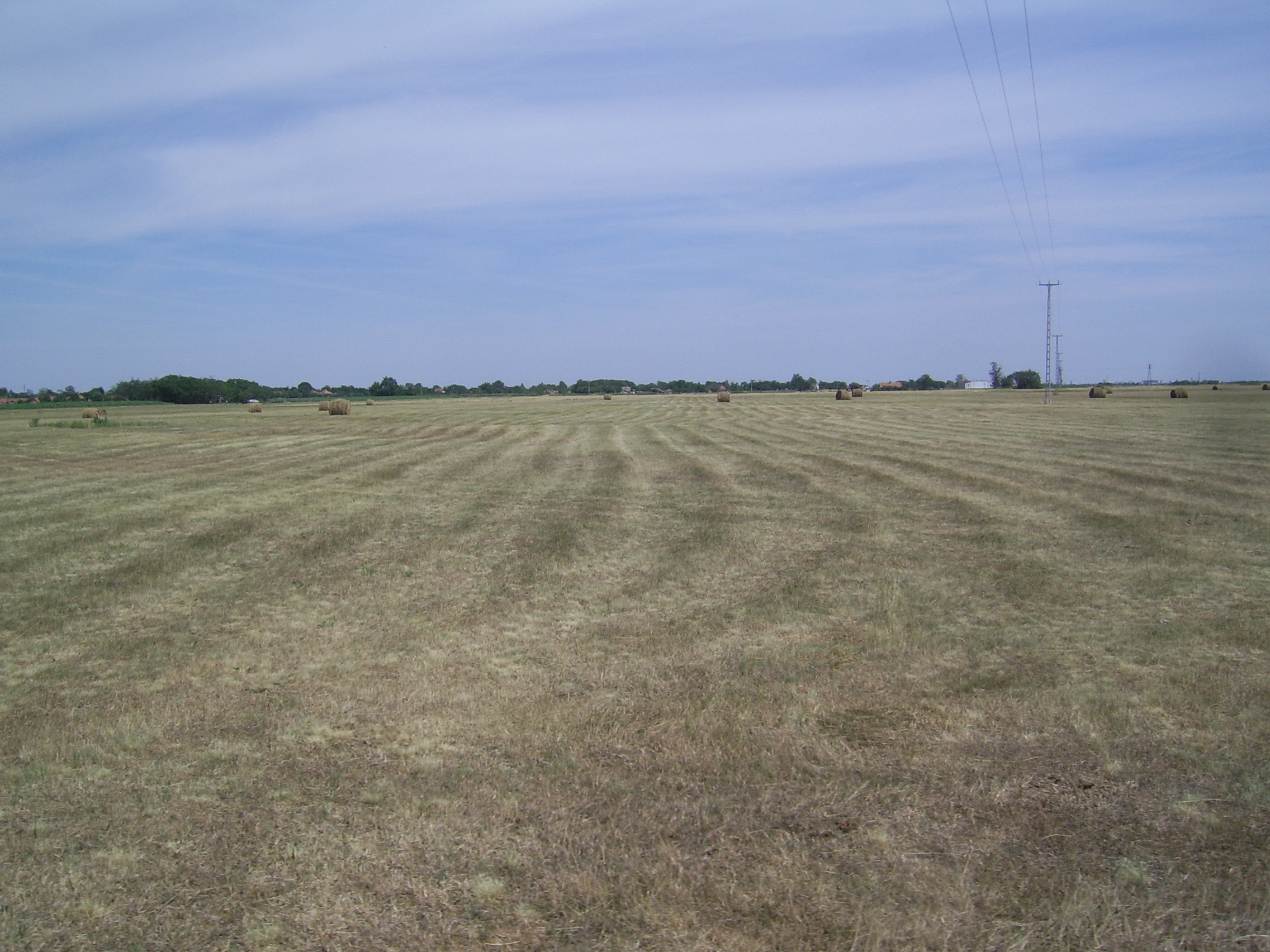 The Great Hungarian Plain near Mártély, Hungary